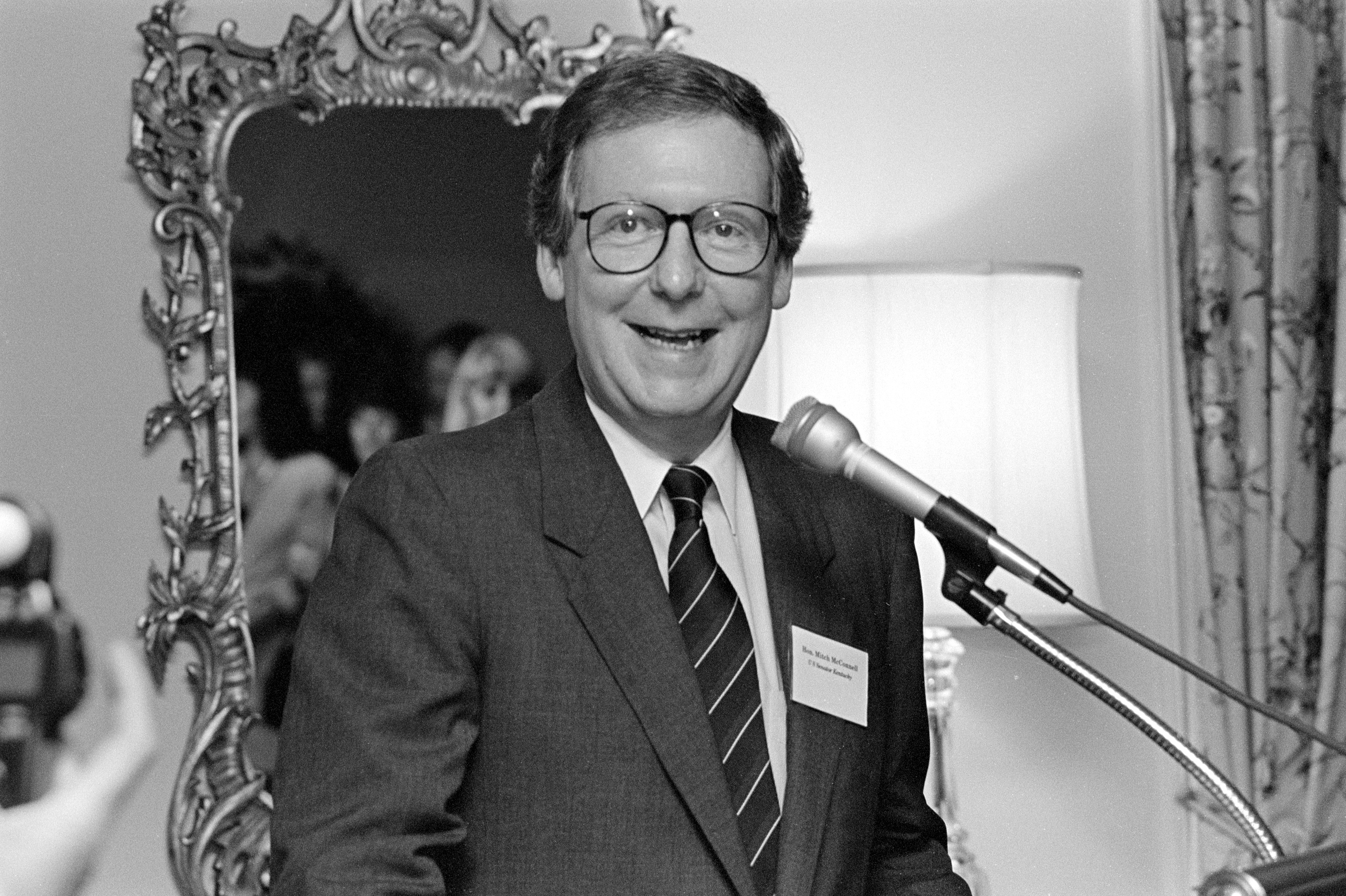 Senator Mitch McConnell, head-and-shoulders portrait, facing front, speaking at microphone at a gathering of Republican Party women candidates